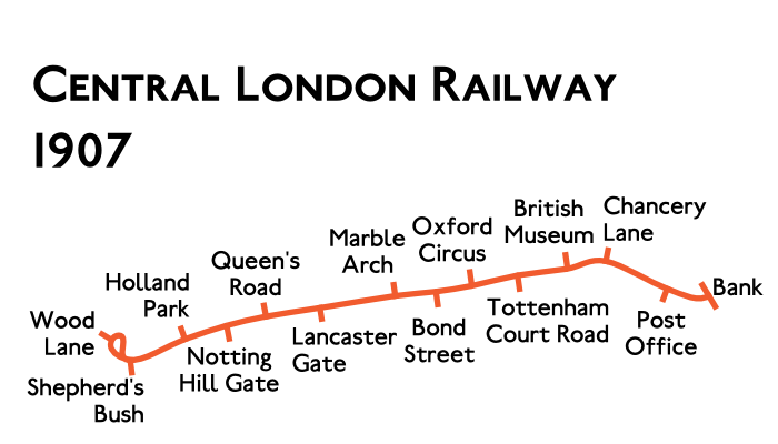 Geographic Map of the Central London Railway as planned in 1907.